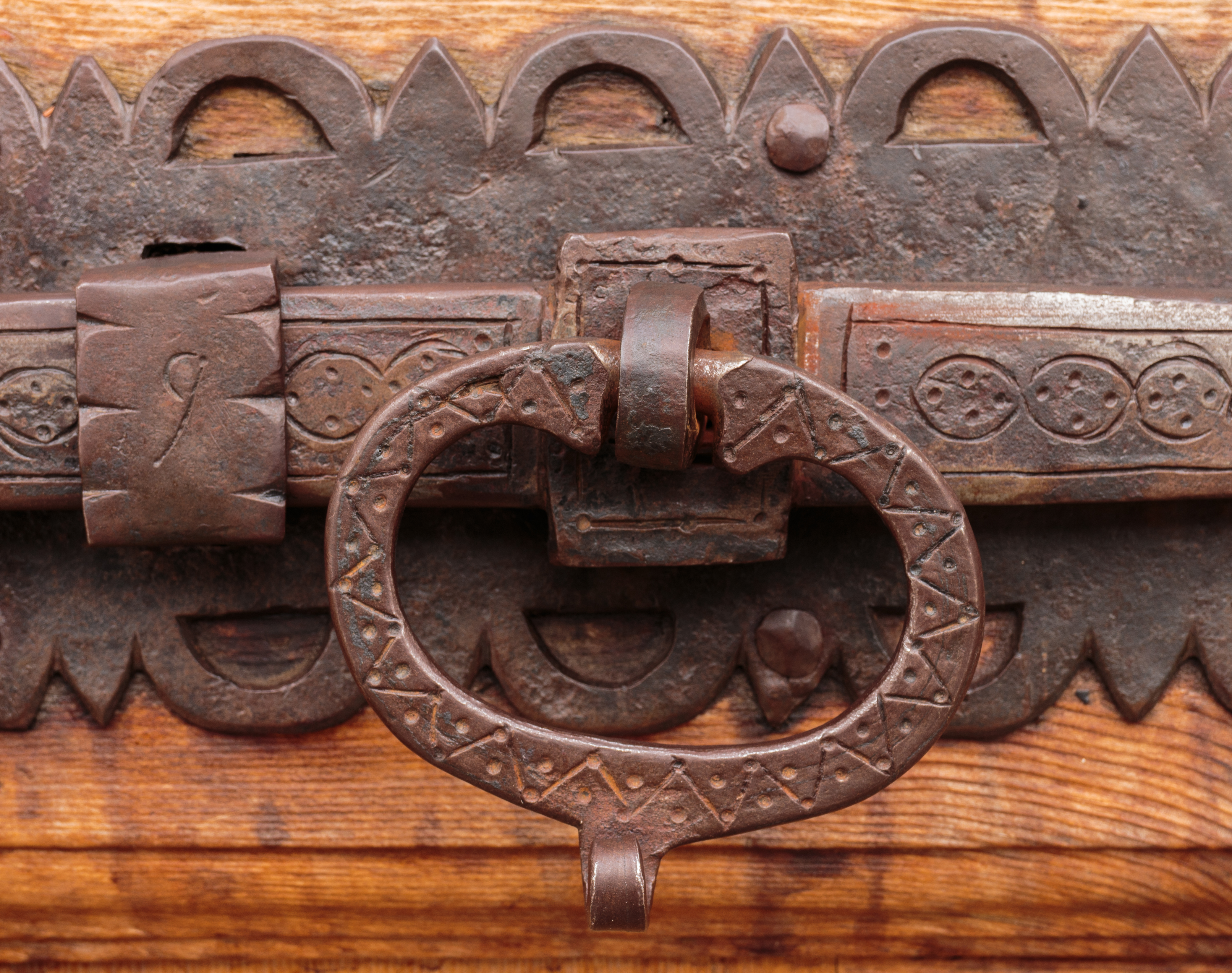 Sent (German: Sins ) a place in the Swiss canton Graubünden Wooden door of the Reformierte Kirche Sent. (Detail)